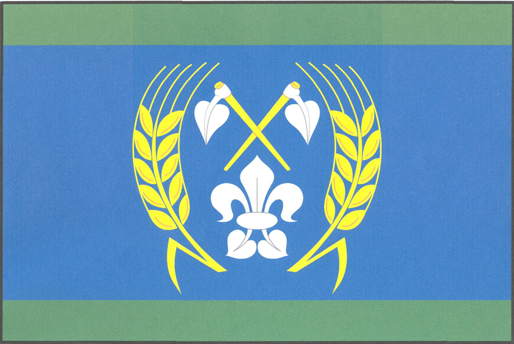 Municipal flag of Zbenice , District Příbram, Czech Republic